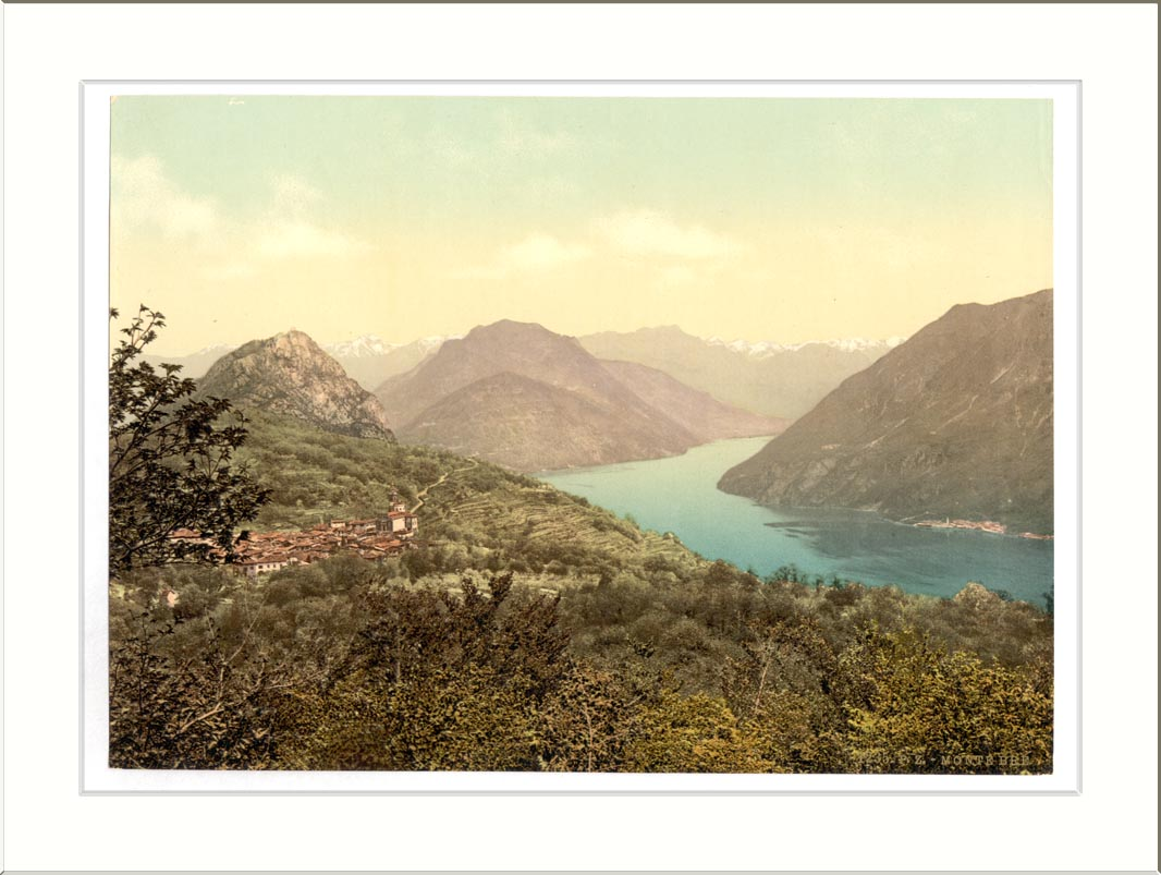 between ca. 1890 and ca. 1900. Print no. 1235. Views of Switzerland 1 photomechanical print : photochrom color. Library of Congress Prints and Photographs Division Washington D.C. 20540 USA Lugano Monte Brè Tessin Switzerland between ca. 1890 and ca. 1900. Print no. 1235. Views of Switzerland 1 photomechanical print : photochrom color. Library of Congress Prints and Photographs Division Washington D.C. 20540 USA The village is Carona, behind the top of Monte San Salvatore. Monte Brè is the mount on the background.